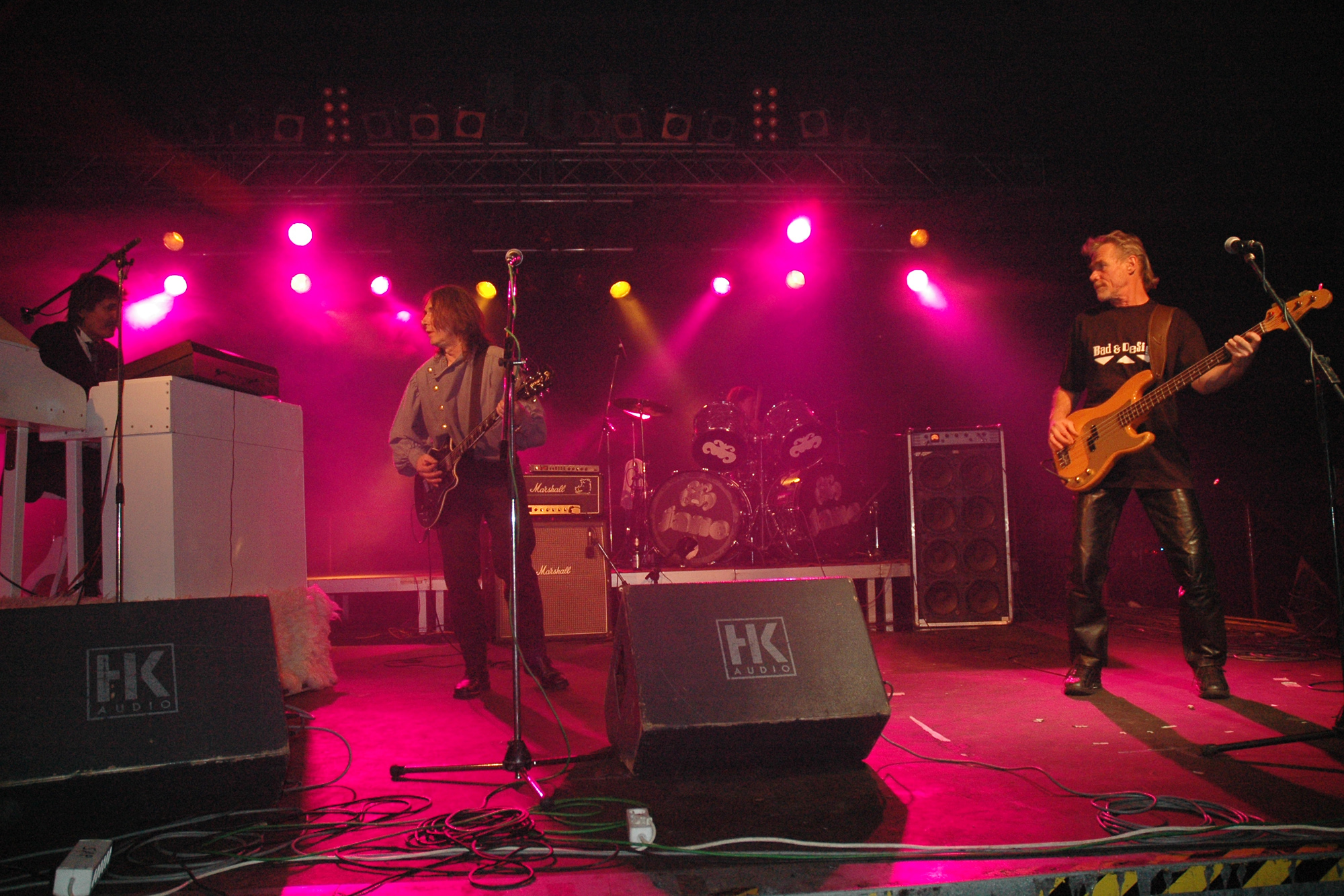 Peter Panka’s Jane live 11.12.2004